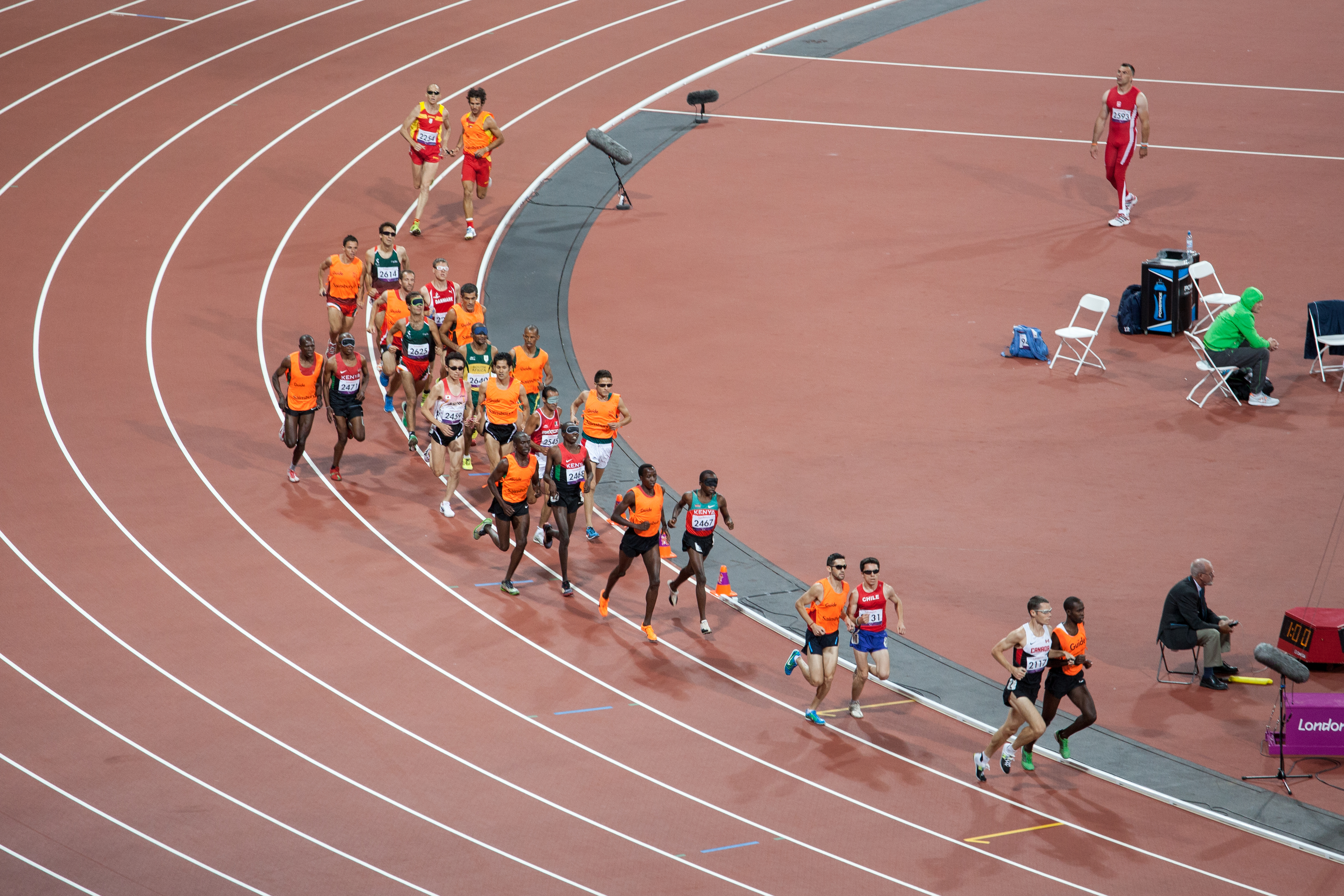 Men's 5000m-T11 at the London 2012 Paralympic Games.